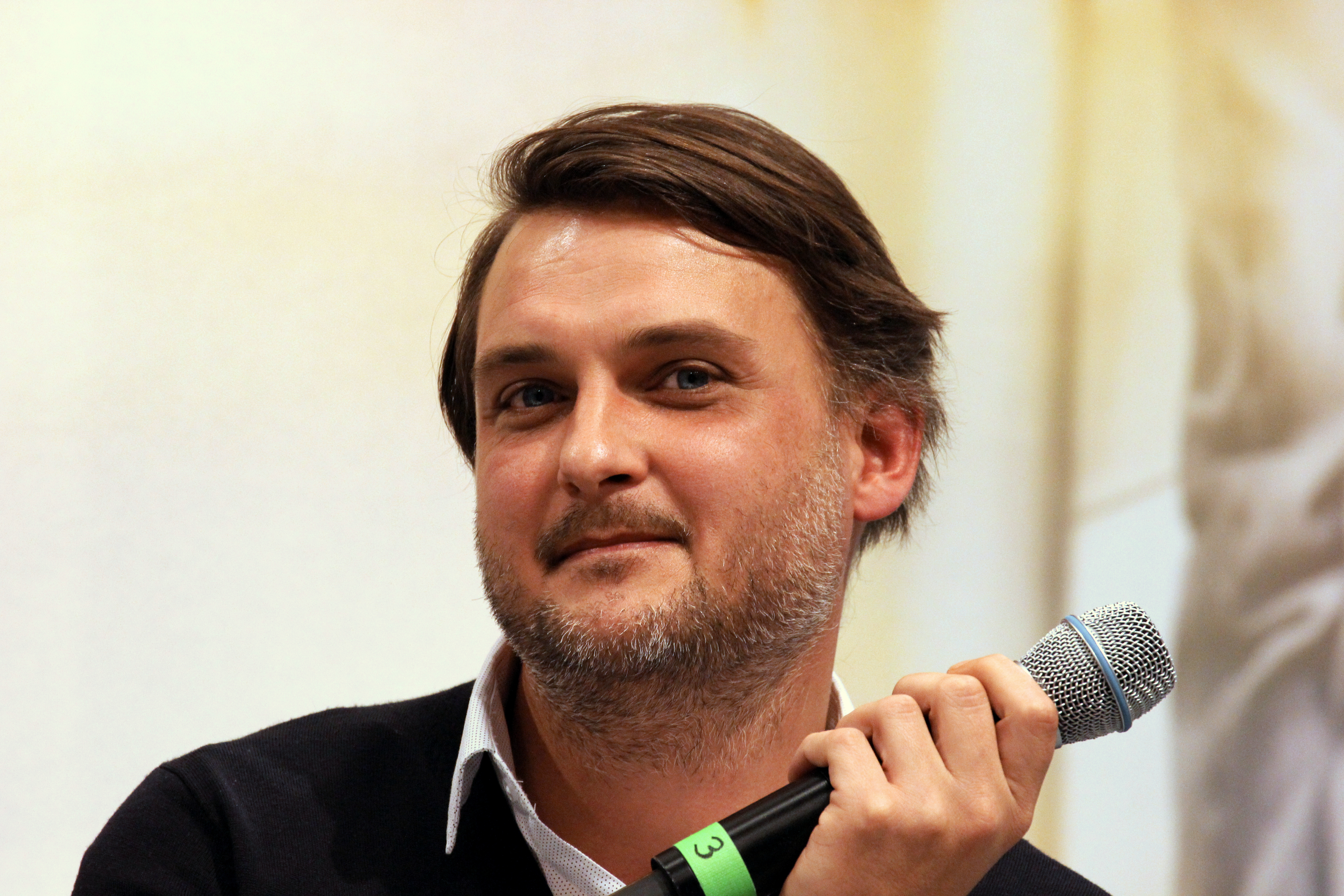 Tilman Rammstedt Frankfurt Book Fair 2016